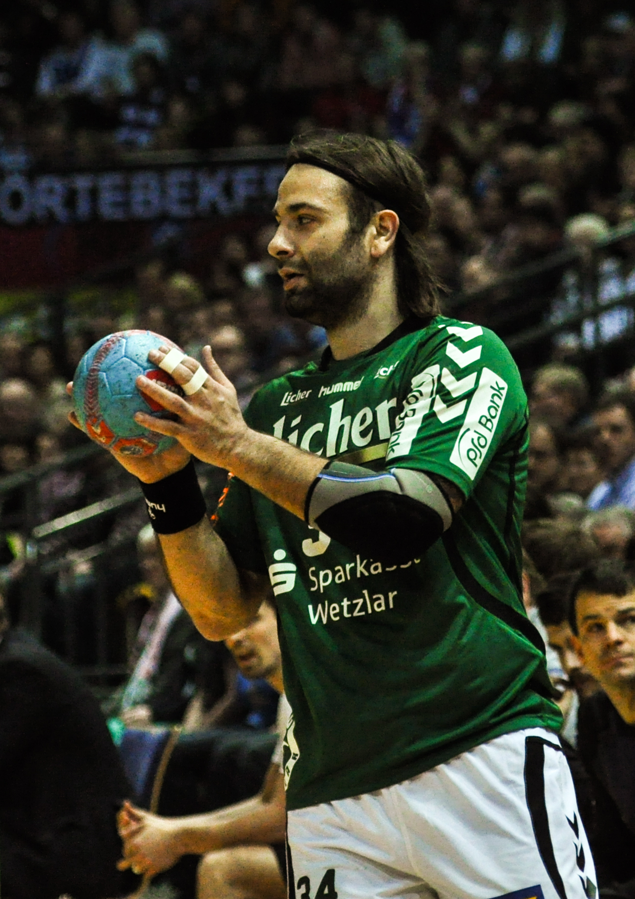 taken on February 8, 2014 during DKB Handball-Bundesliga match between HSG Wetzlar and HSV Hamburg